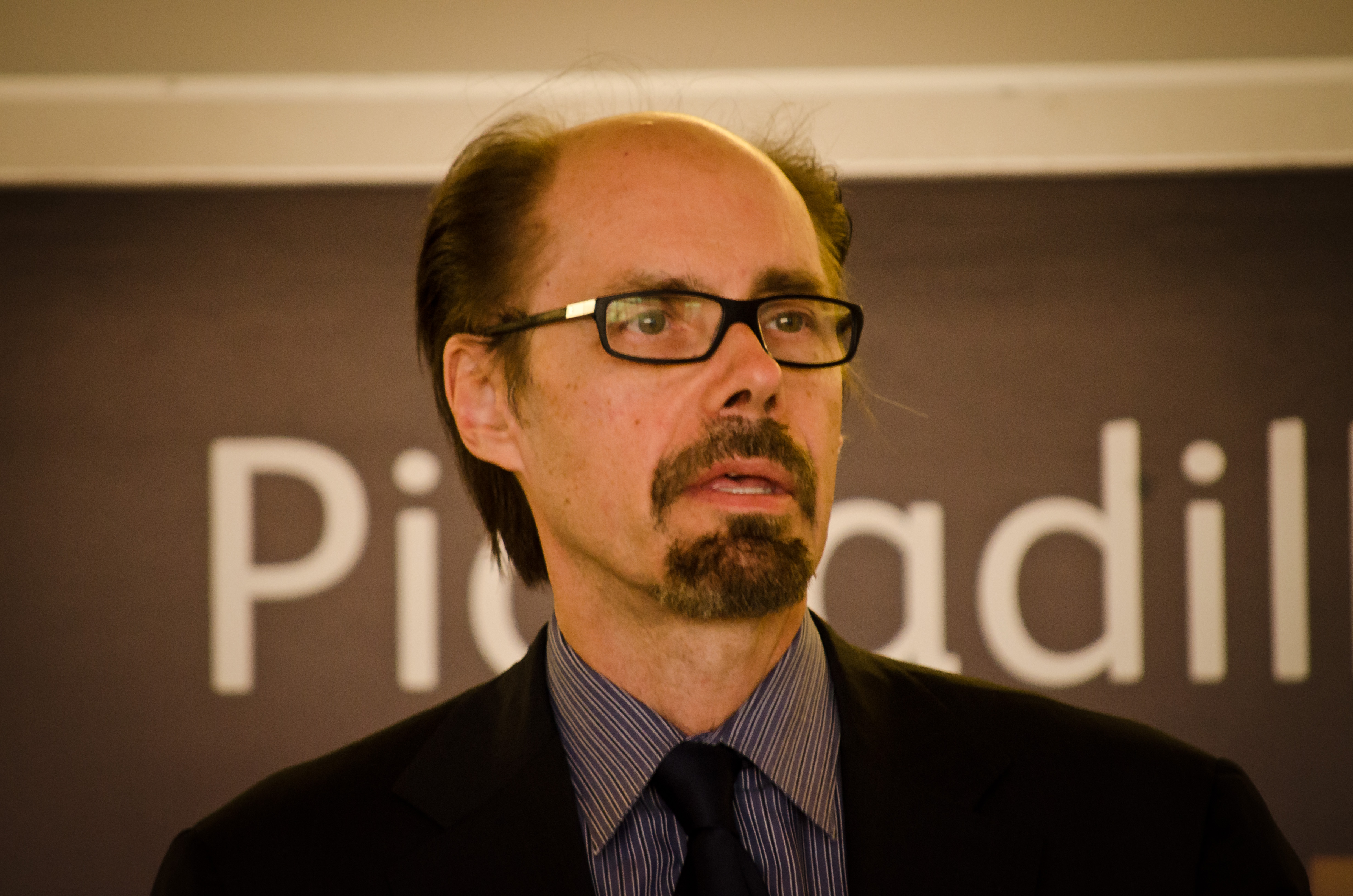 Crime author Jeffery Deaver gave an interesting and entertaining talk at Waterstone's.